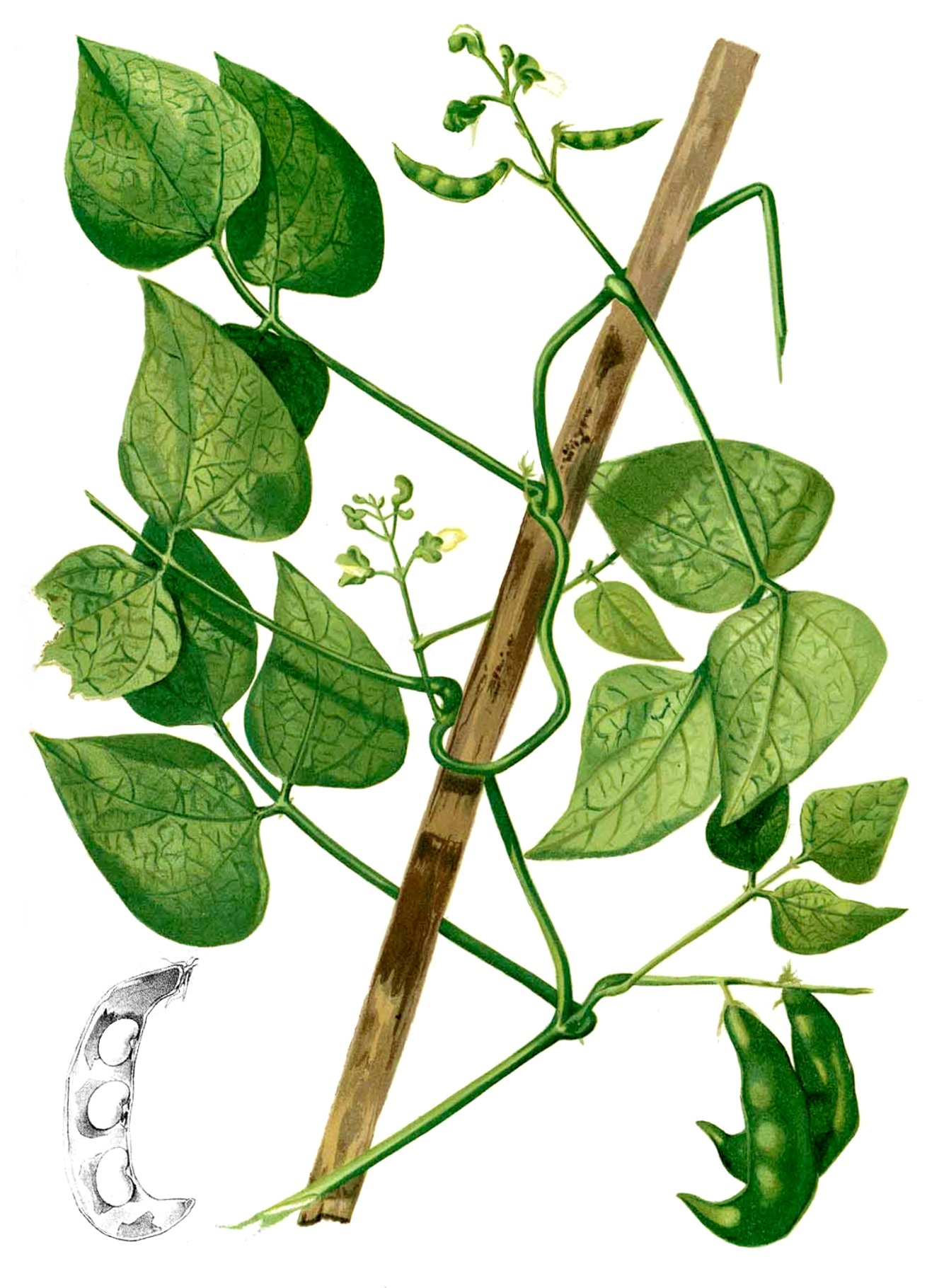 Plate from book